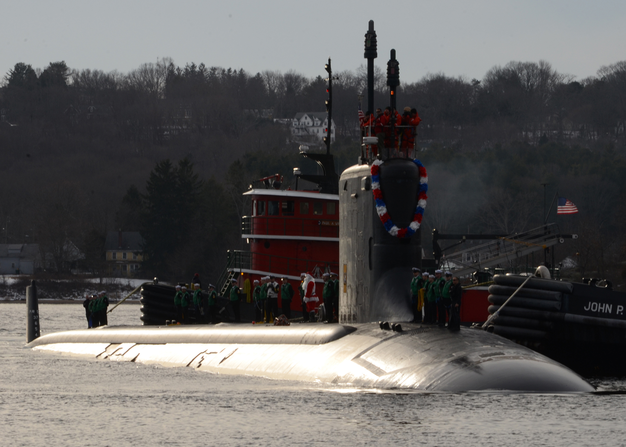 The U.S. Navy Virginia-class attack submarine USS Missouri (SSN-780) arrives at Naval Submarine Base New London, Groton, Connecticut (USA), after completing its maiden six-month deployment to the U.S. 6th Fleet area of responsibility. Note the crewman in a Santa Claus-costume on deck.